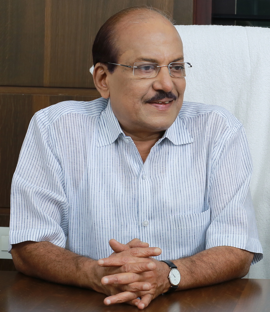 P. K. Kunhalikuttyy